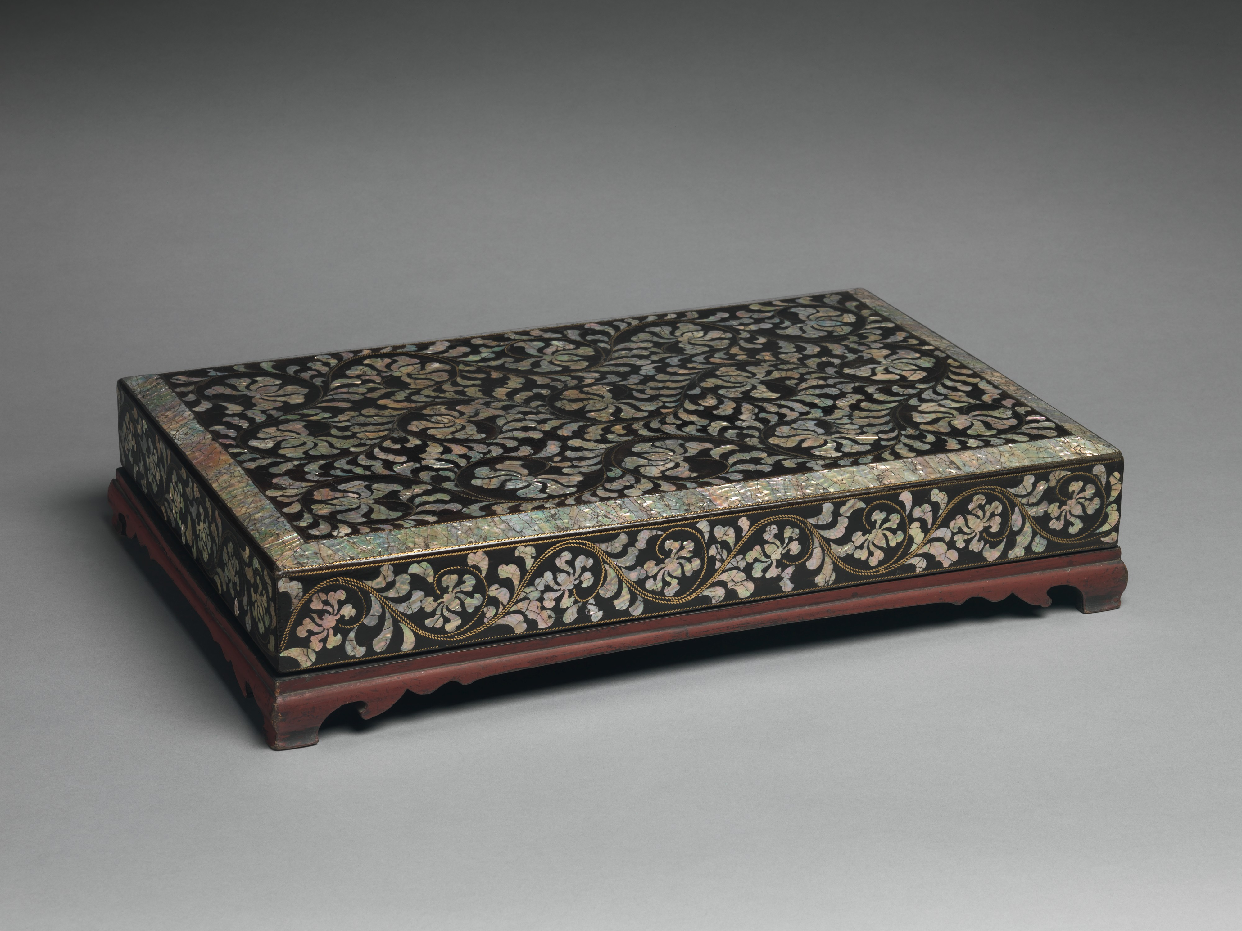 Korea; Stationery box; Lacquer